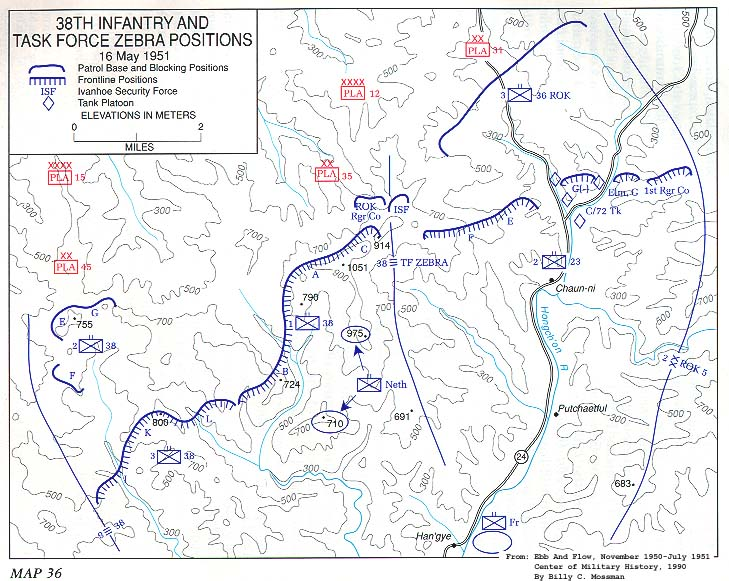 38th Infantry and Task Force Zebra positions, 16 May 1951